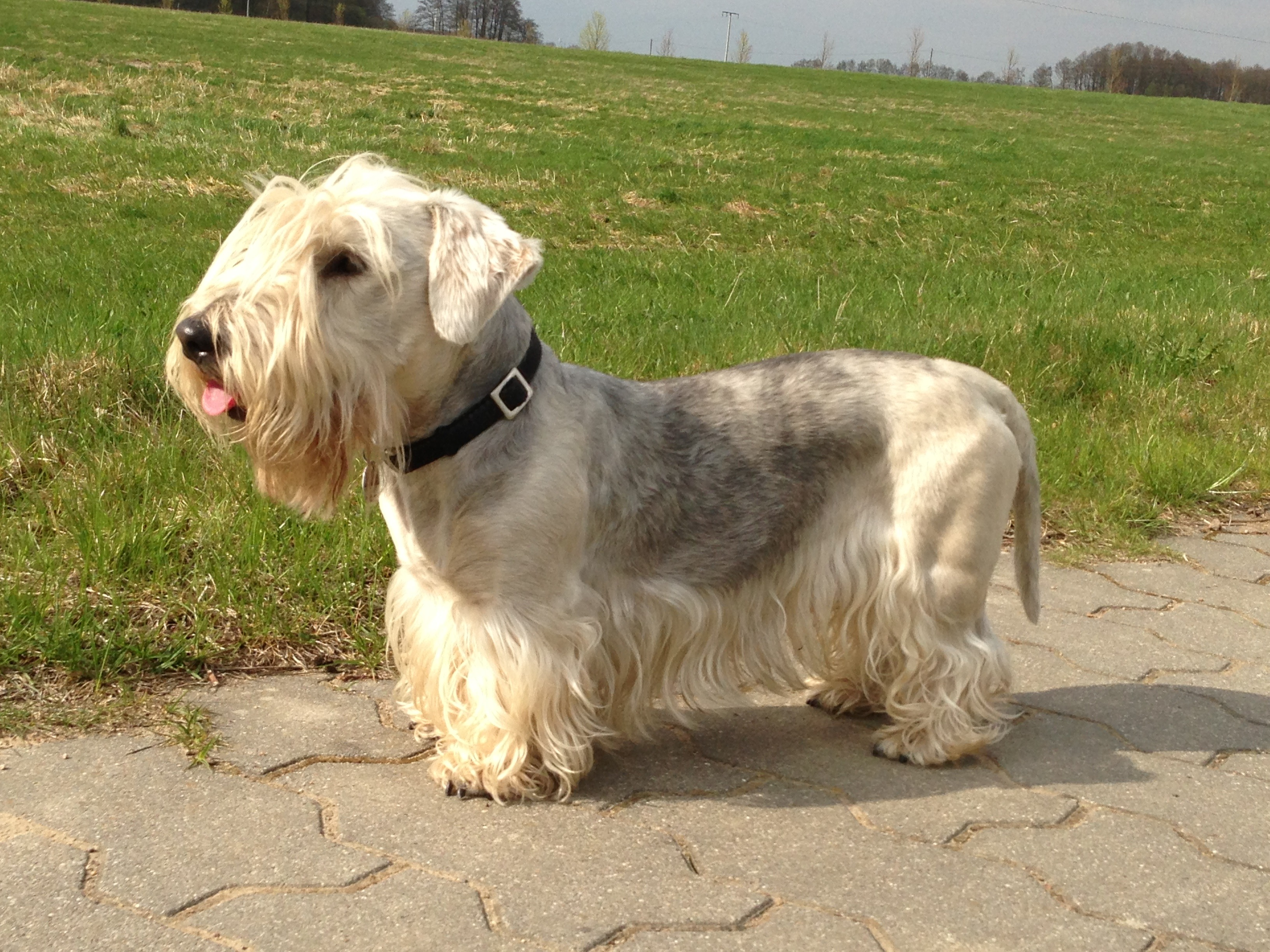 Cesky terrier Terrier checo